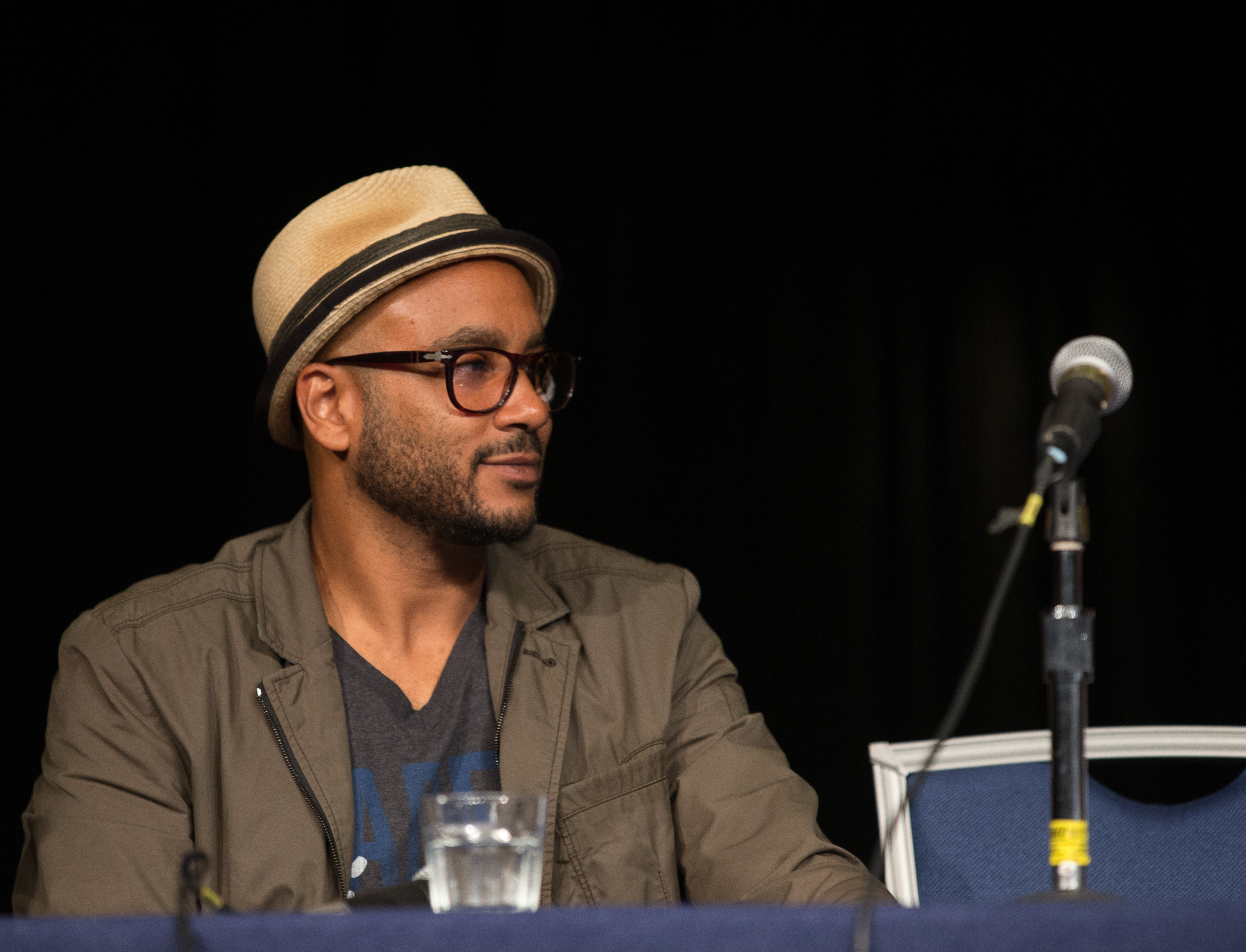 Cirroc Lofton as member of a panel at a Star Trek DS9 convention